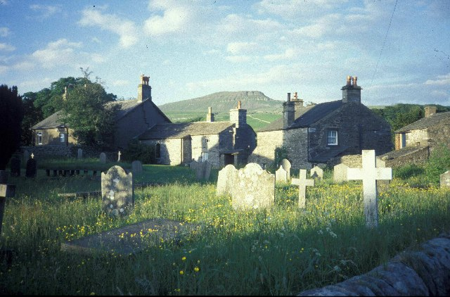 Churchyard at Horton in Ribblesdale